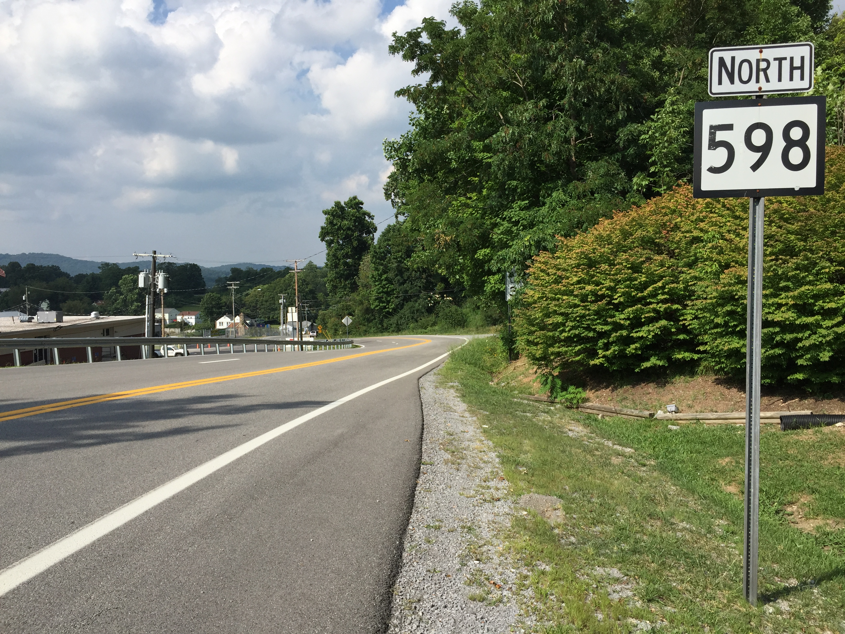 View north along West Virginia State Route 598 (Cherry Drive) at U.S. Route 460 in Bluefield, Mercer County, West Virginia